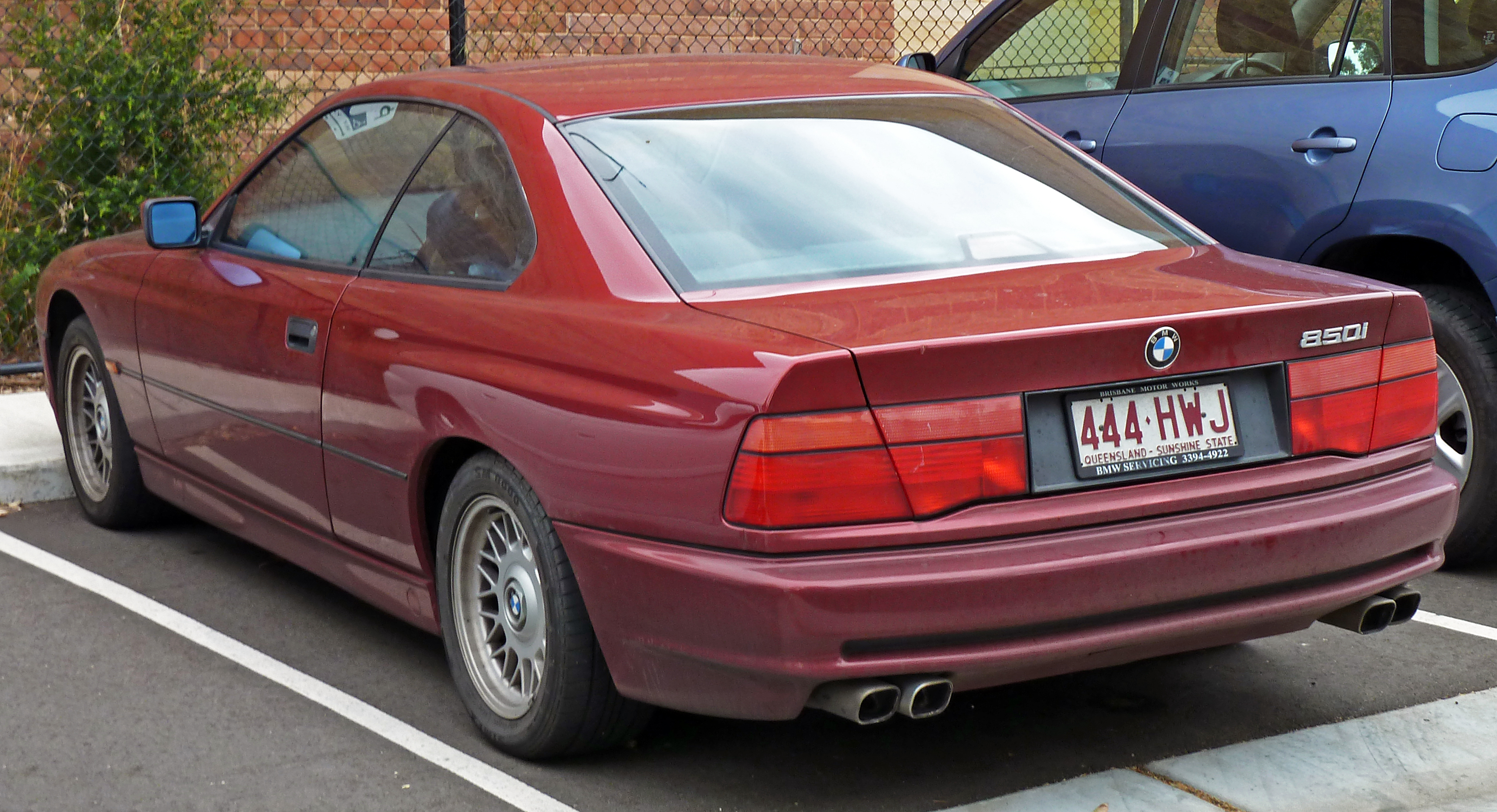 1990–1992 BMW 850i (E31) coupe. Photographed in Cronulla, New South Wales, Australia.